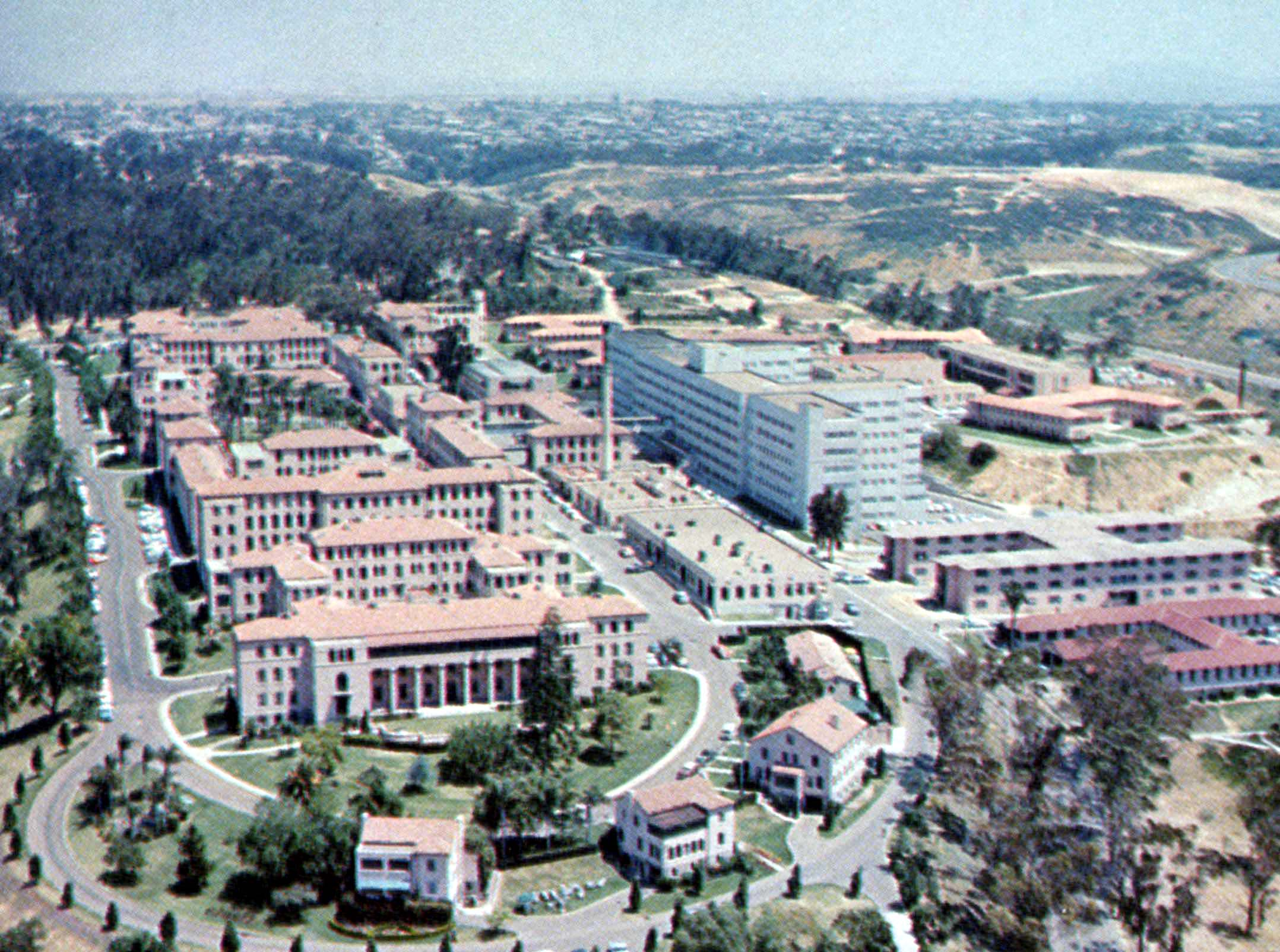 The Naval Hospital San Diego opened in the 1920s. It was of Spanish Colonial Revival design with a series of separate wards around an interior courtyard all connected to an administration building via two-level walkways. Outside of this complex was a Navy chapel. A large addition to the complex was contructed in the early 1950s housing more rooms and updated operation facilities. A new hospital was constructed in the early 1980s, and the oldest portion was returned to the City of San Diego. The city intended to demolish all of the the old buildings. Ultimately the administration building was kept to house the headquarters of the San Diego Park District and the chapel was given over for use a veterans museum.